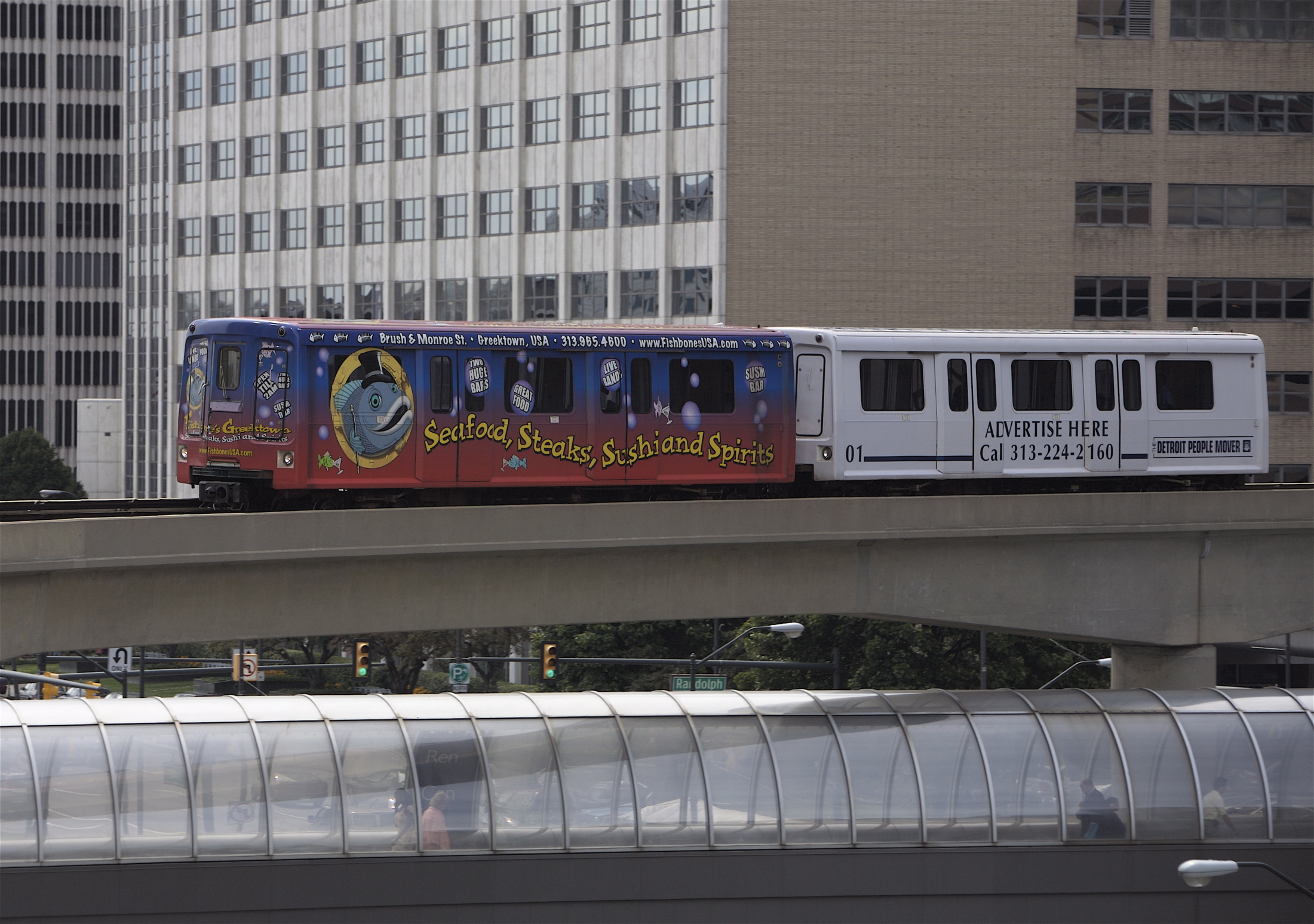 The Detroit People Mover from the Renisance Center.